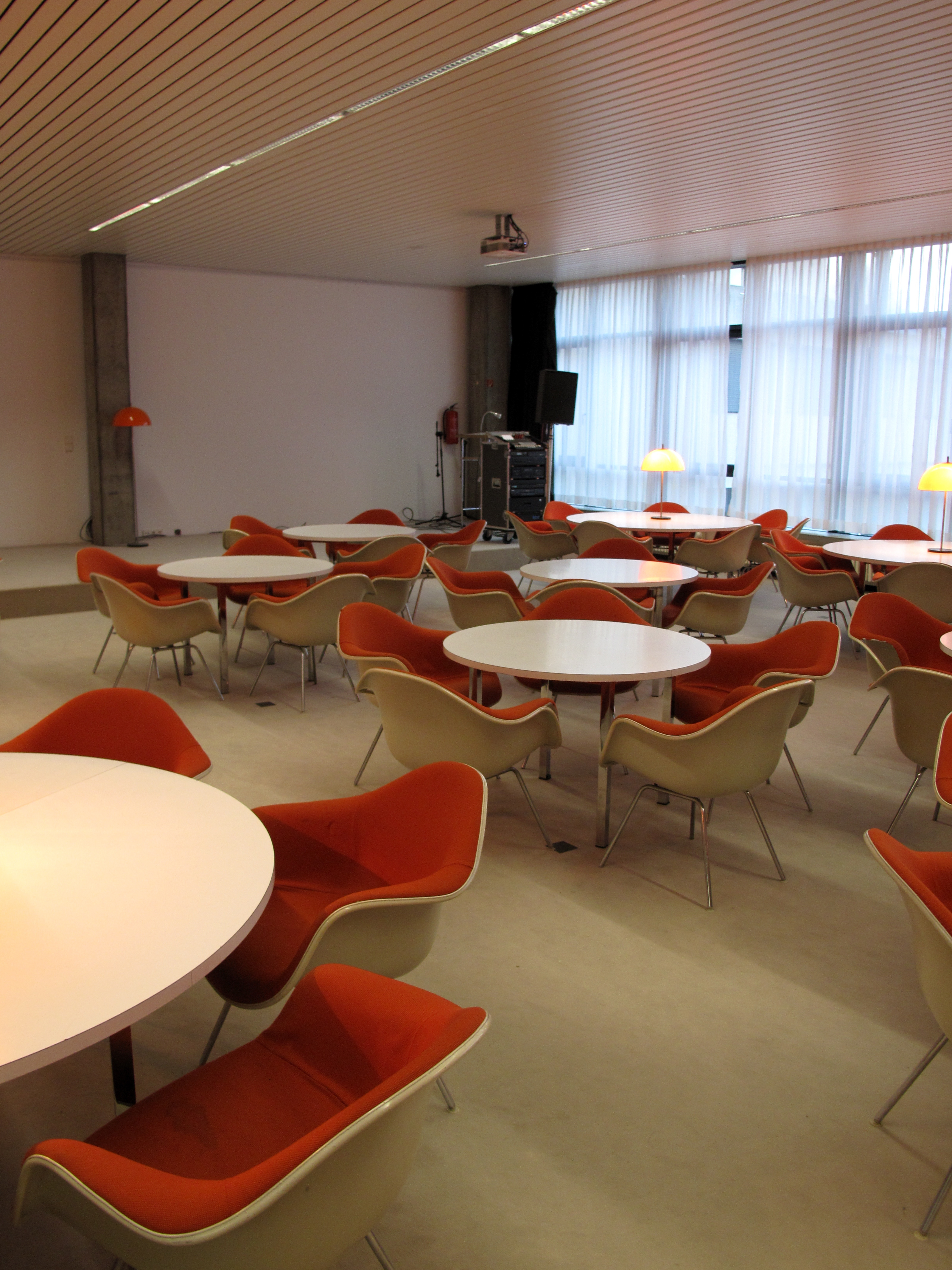 The Club Orange in the EinsteinHaus (1st floor) of the Ulmer Volkshochschule with orange chairs (Dining Armchairs – by Charles and Ray Eames).